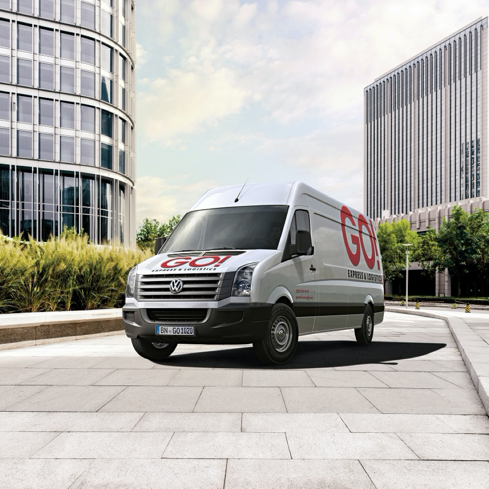 Delivery vehicle of GO! Express & Logistics